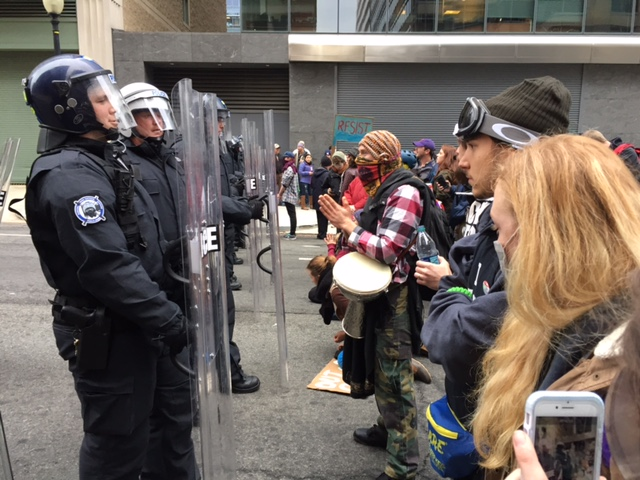 Police face off with protesters as Donald Trump is sworn-in as the 45th President of the United States in Washington, D.C., Jan, 20, 2017. (J. SwicordVOA)